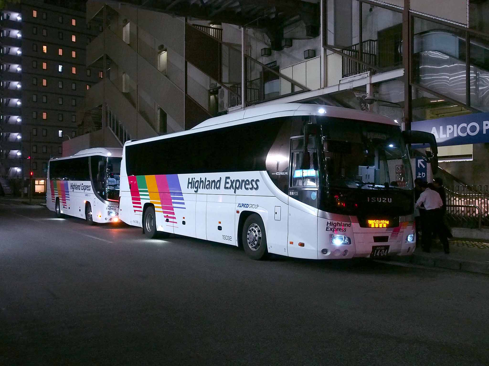 Alpiko Kotsu Nagano and Chiba Line, stopping at Matsumoto Bus Terminal. Forward: Isuzu Gala HD License plate: NNN200 KA1404 Aft: Hino Selega HD RU1AS License plate: NNN200KA1498